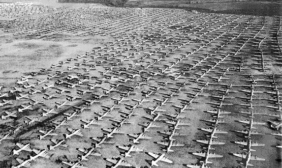 Kingman Army Airfield - 1946 Aircraft Storage Depot.